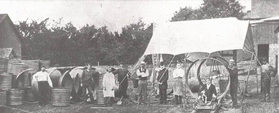 Production of corrugated steel pipes, 1986, Crawfordsville